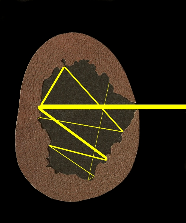 The image depicts the practical implementation of a black body by a small hole entrance to a large cavity with blackened walls. Any light ray entering through the hole is almost entirely absorbed, hence the hole appears as a true black surface. Since the hole is very small, the interior of the cavity contains radiation almost in thermal equilibrium with the walls maintained at a fixed temperature. Hence the hole emits nearly true blackbody radiation.